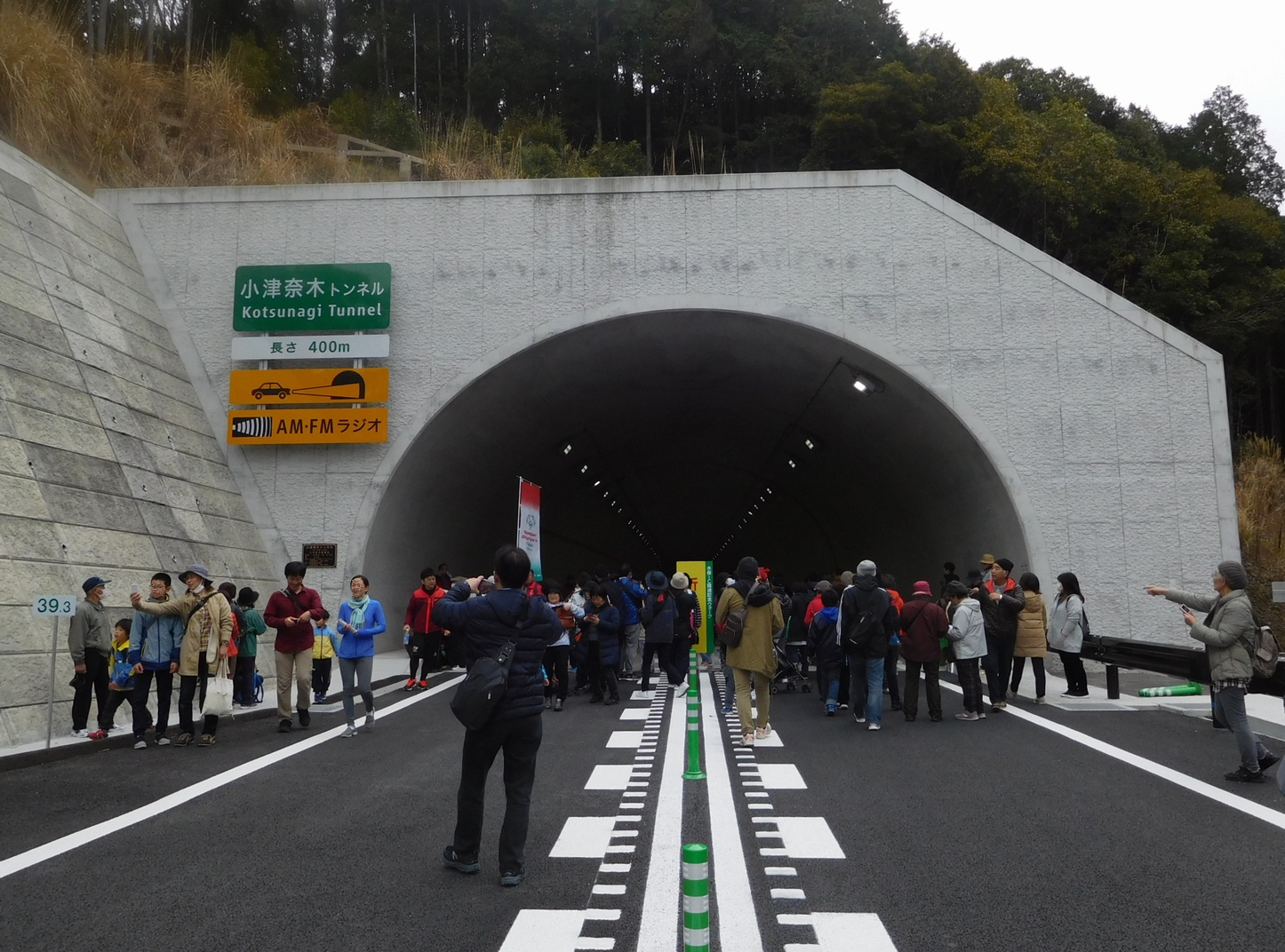 The Kotsunagi Tunnel of Minami-Kyushu Expressway (Western Side) in Tsunagi Town, Kumamoto Prefecture, Japan.